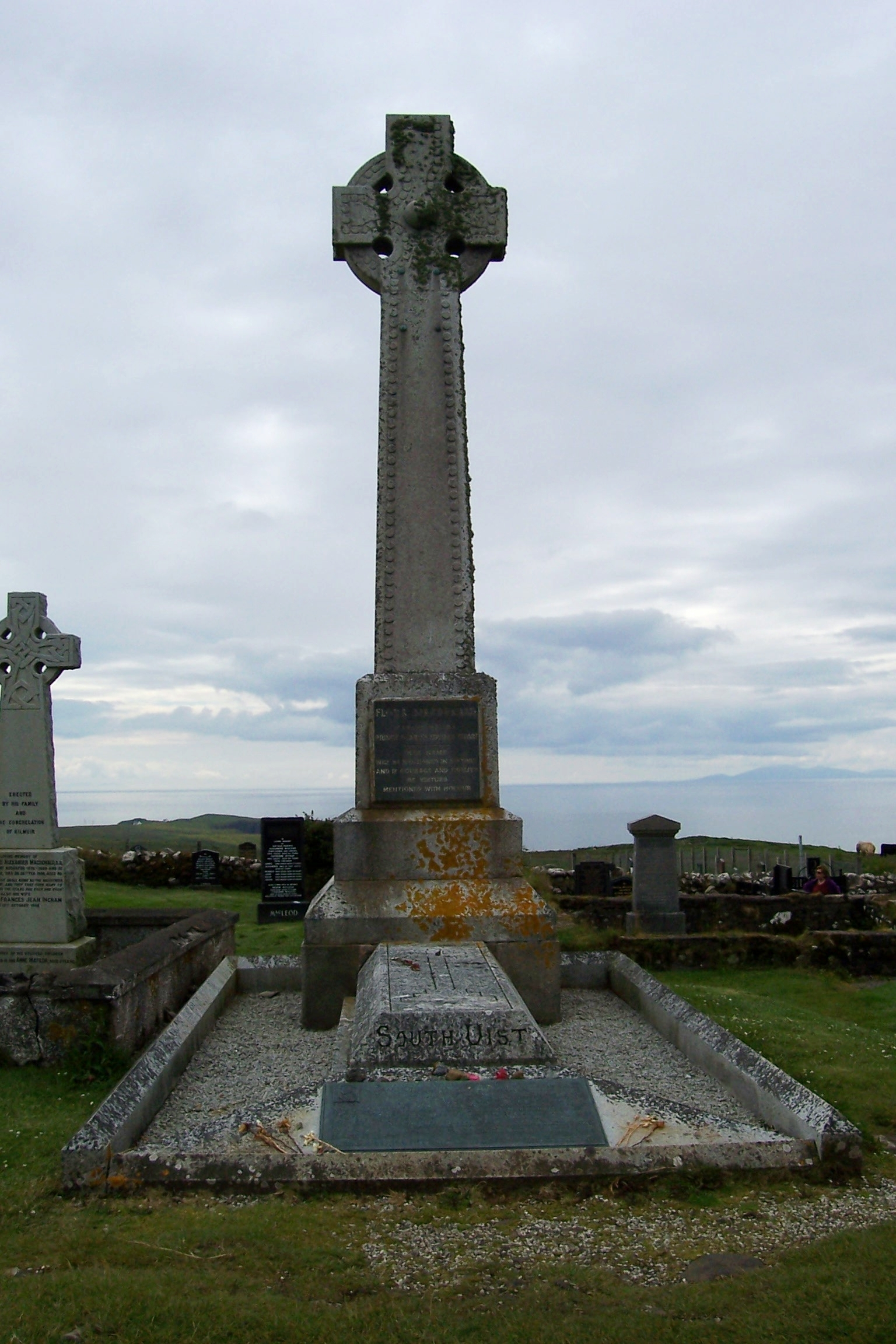 Flora MacDonald's grave in Kilmuir Cemetery on the Isle of Skye.